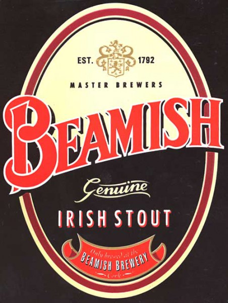 Beamish_brand